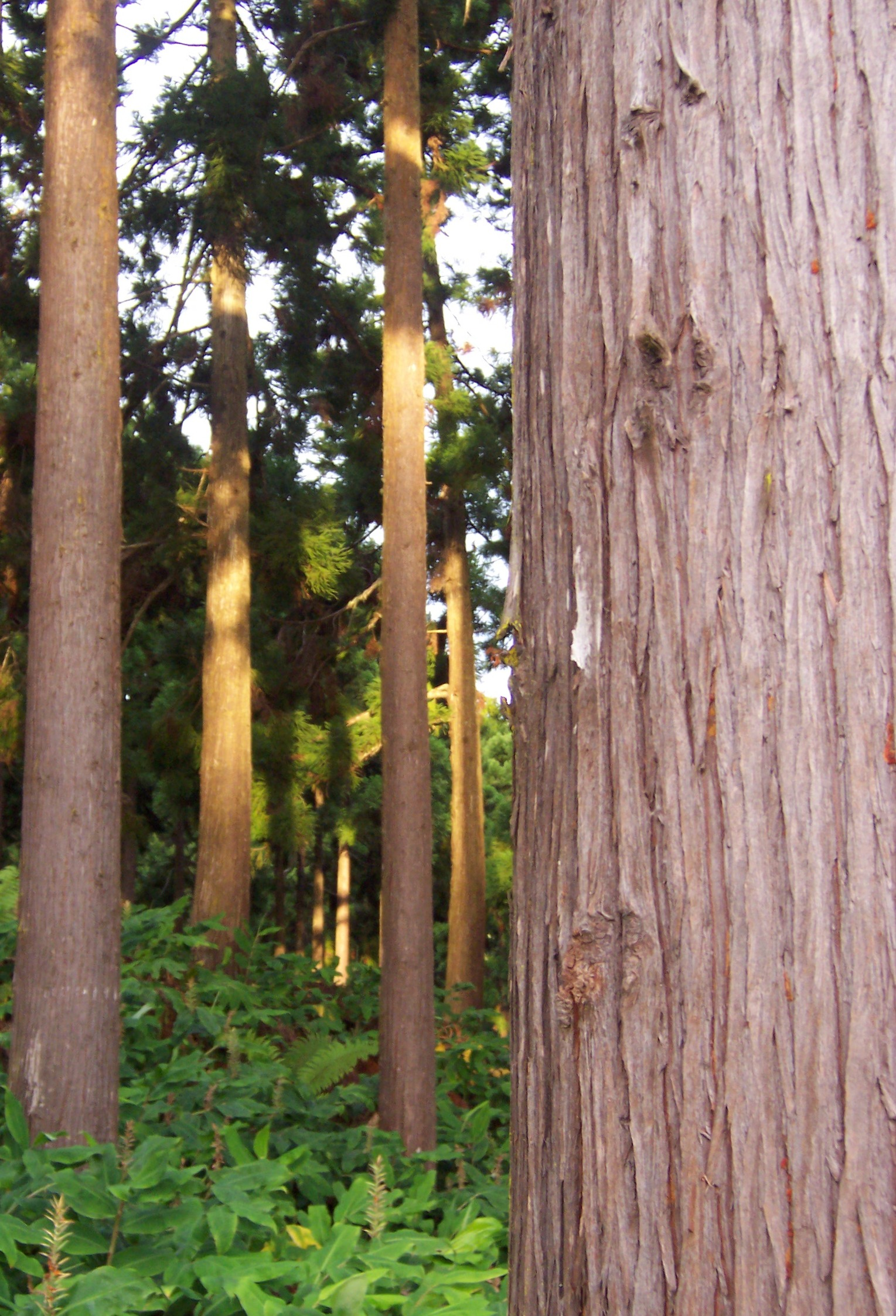 Detail of the bark of Cryptomeria japonica (plantations on Réunion island)